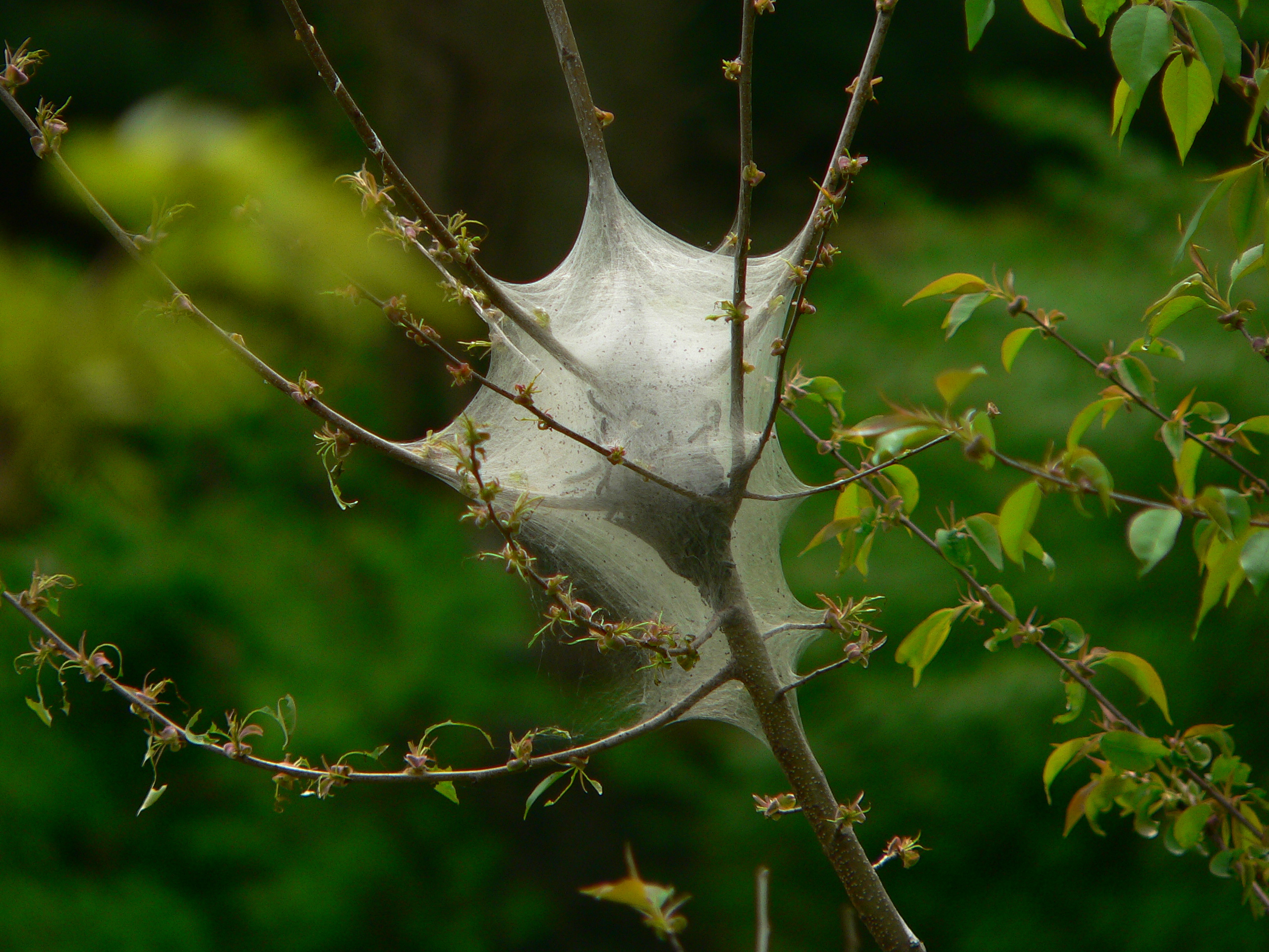 Eastern tent caterpillar - Malacosoma americanum. Taken near Oxford, OH.